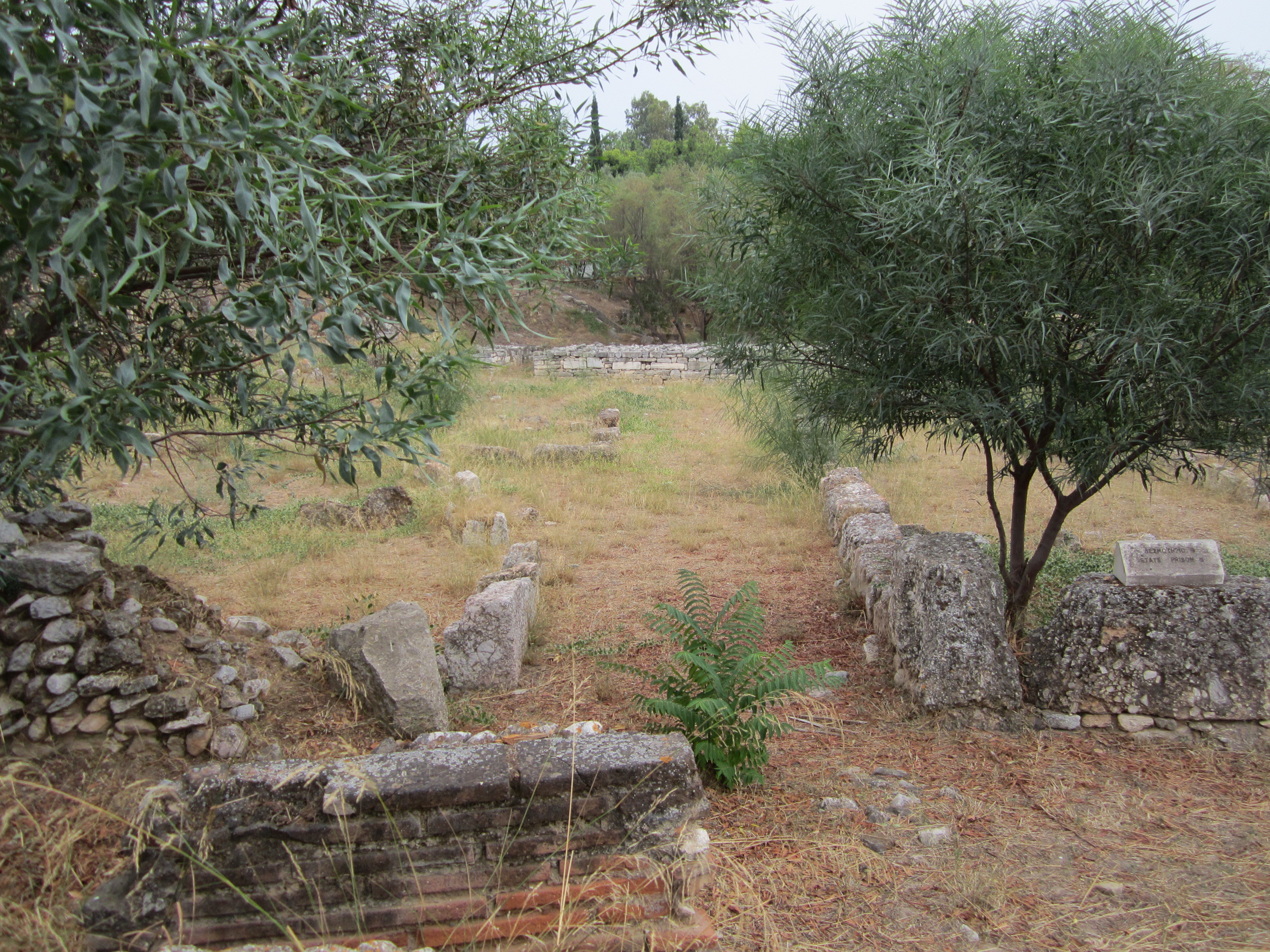 Archaeological site of the Desmotherion i.e. the Ancient Athenian state prison. Located in the western part of the Agora of Athens.